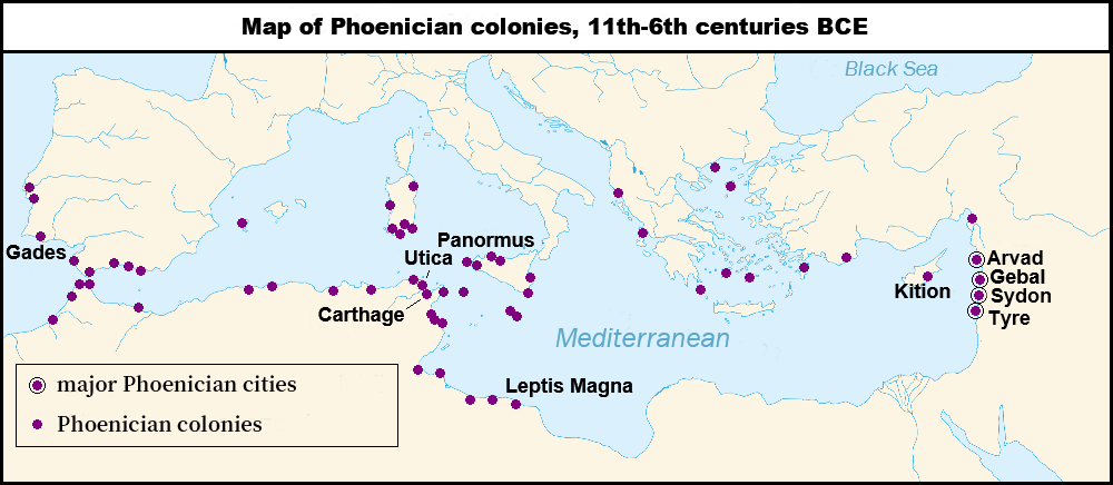 Map of Phoenician colonies, 11th-6th centuries BCE